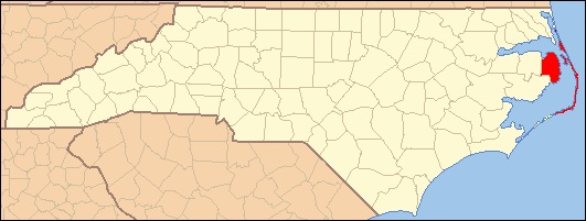 Locator Map of Dare County, North Carolina, United States